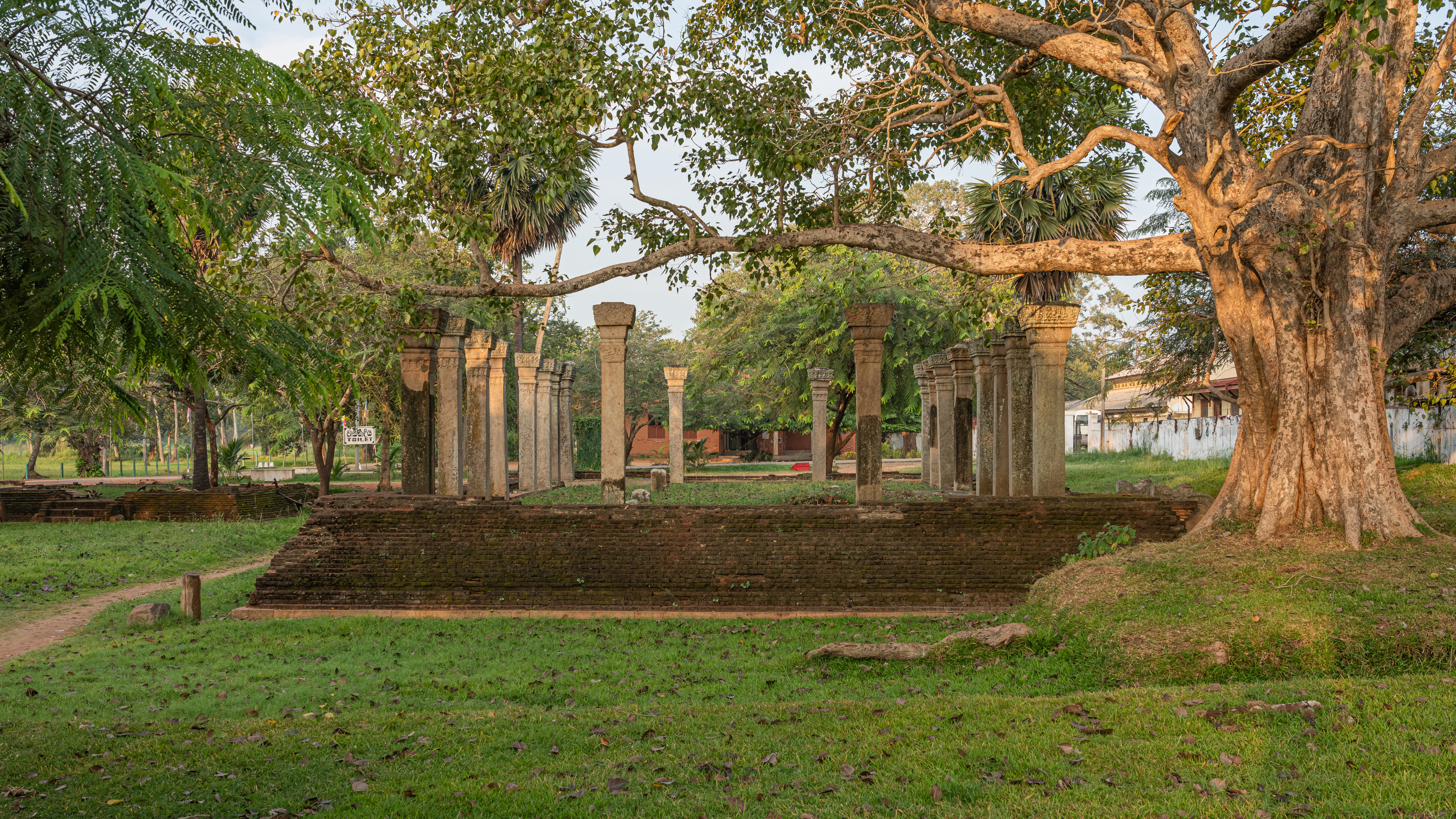 Remains of Mayura Pirivena monastery in Anuradhapura, Sri Lanka